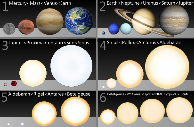 A brief comparison of planets and some well-known stars including UY Scuti.